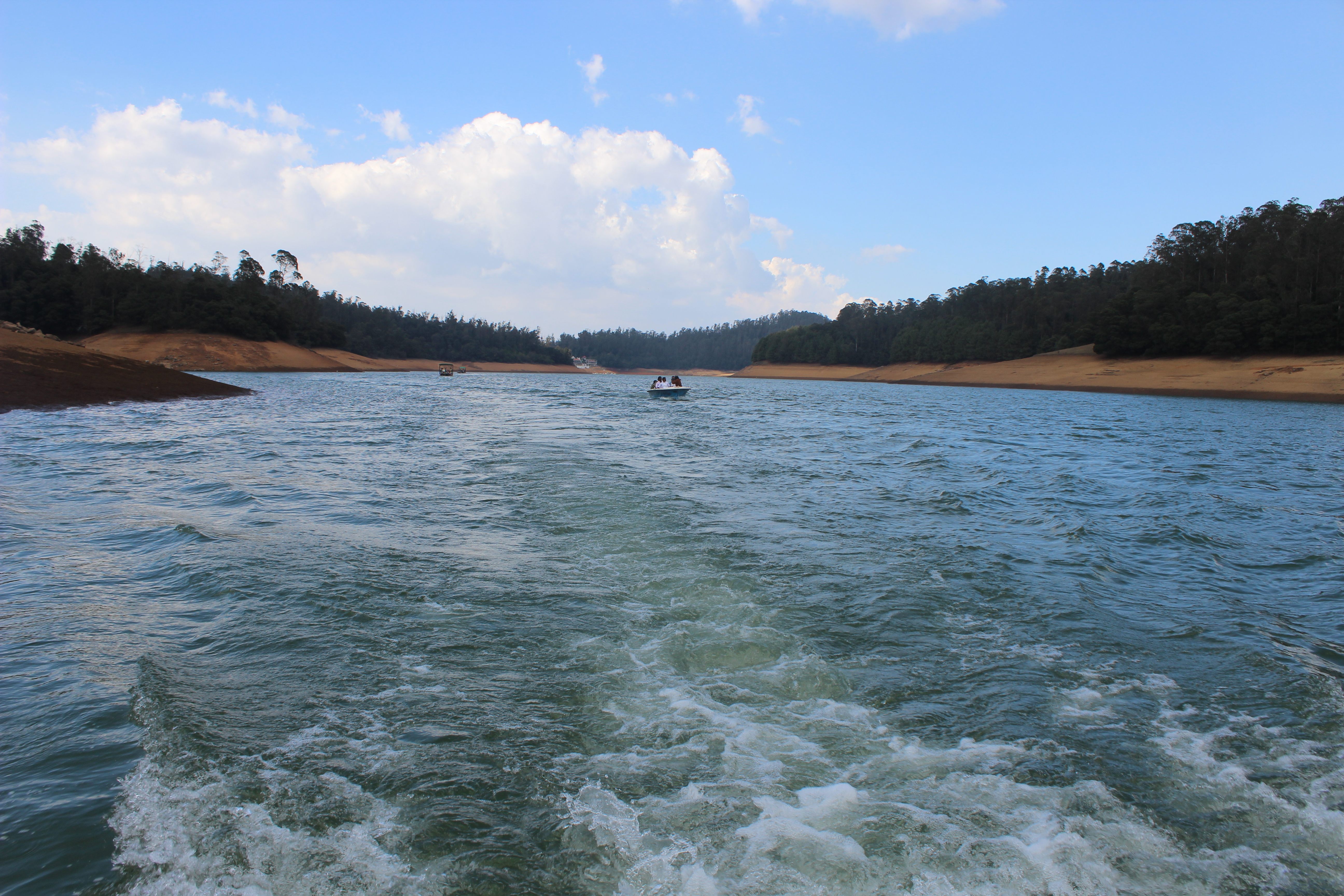 Pykara Lake Boatinh in Ooty, Tamil Nadu.